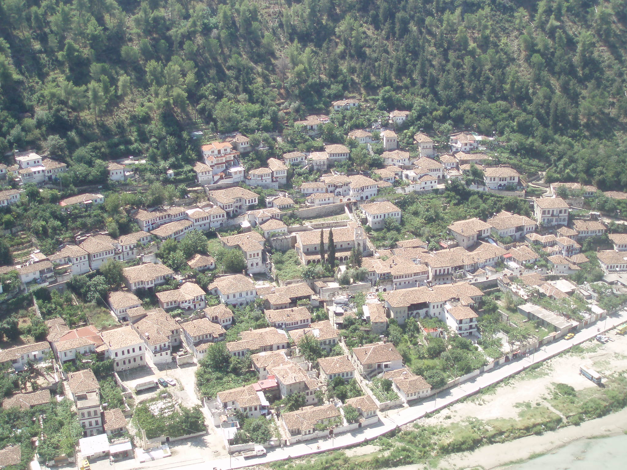 the old part of Berat, Albania, as seen from the castle